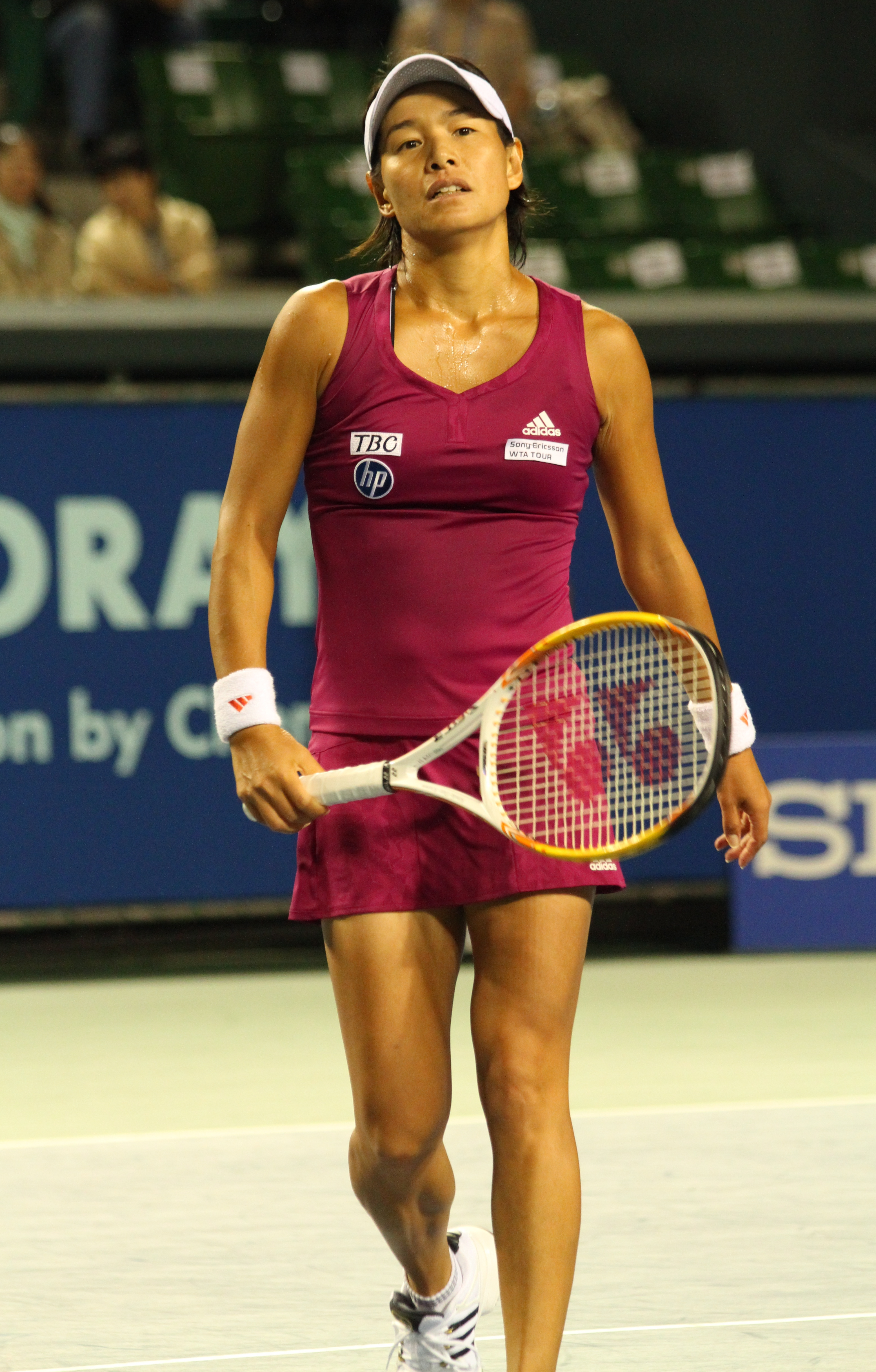 2010 Toray Pan Pacific Open